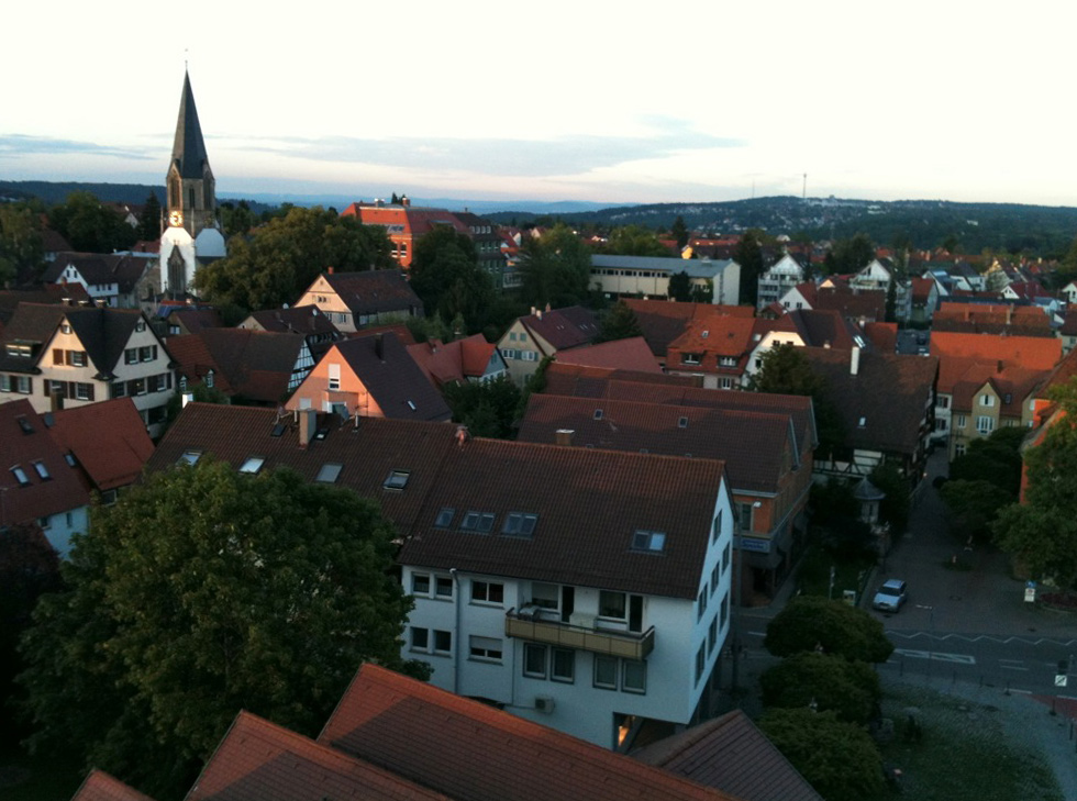 Centre of Stuttgart's Vaihingen district facing roughly the east at twilight. On the left-hand side: The tower of St. Blasius church. In the background the surrounding Filder plateau is visible.